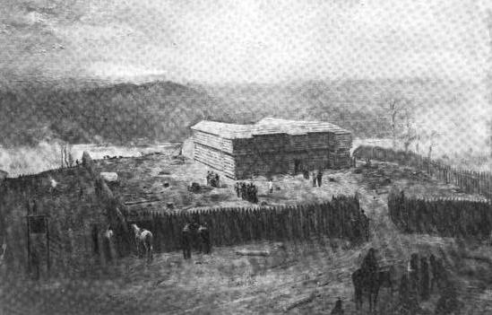 The Blockhouse at Knoxville, Tennessee, by artist Lloyd Branson. The painting depicts the federal blockhouse erected at Knoxville, Tennessee, USA, in 1794. NOTE: This image contains significant noise from the scan. For a clearer scan, see here.